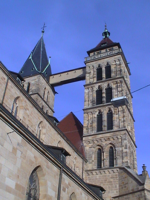 Church Stadtkirche in Esslingen, Germany